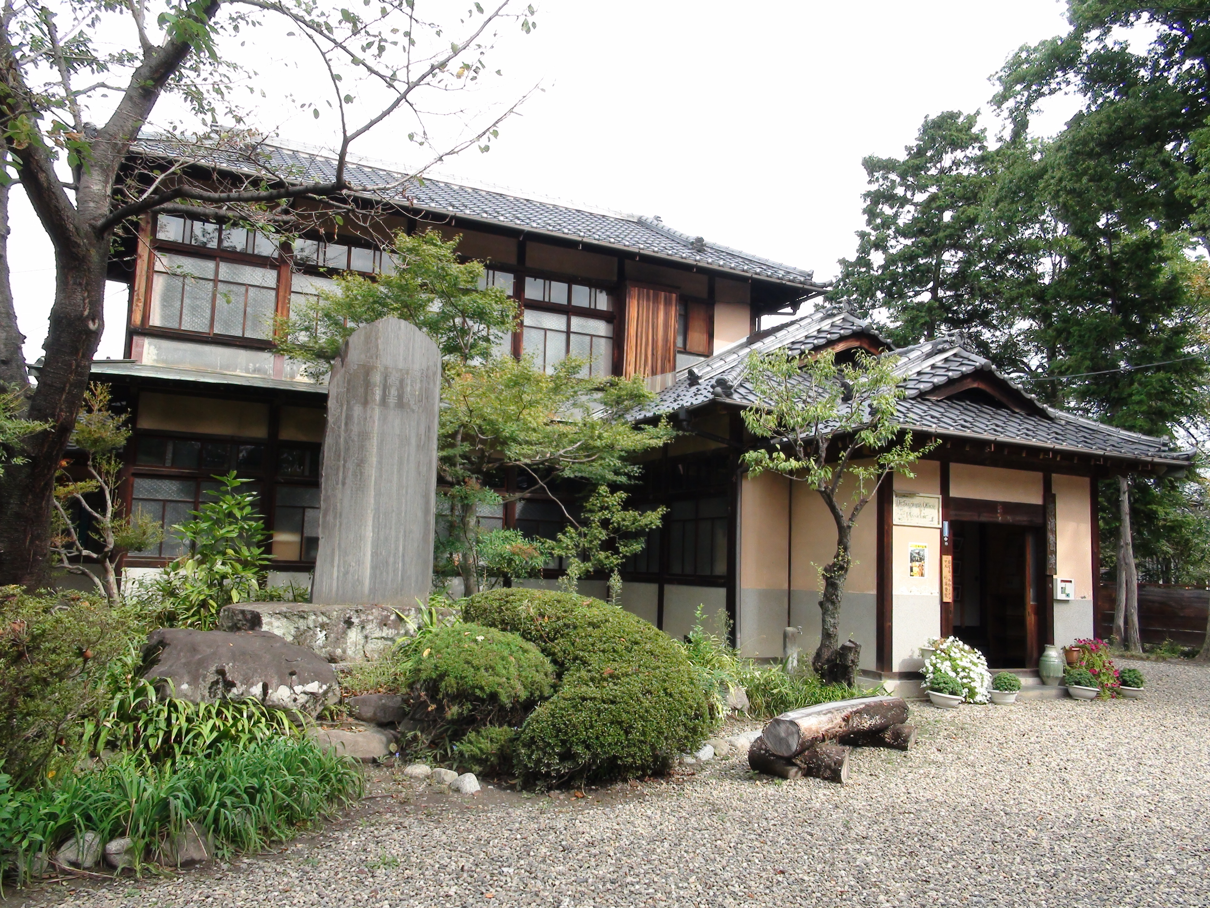 Dr.Sugiura Memorial Museum Main